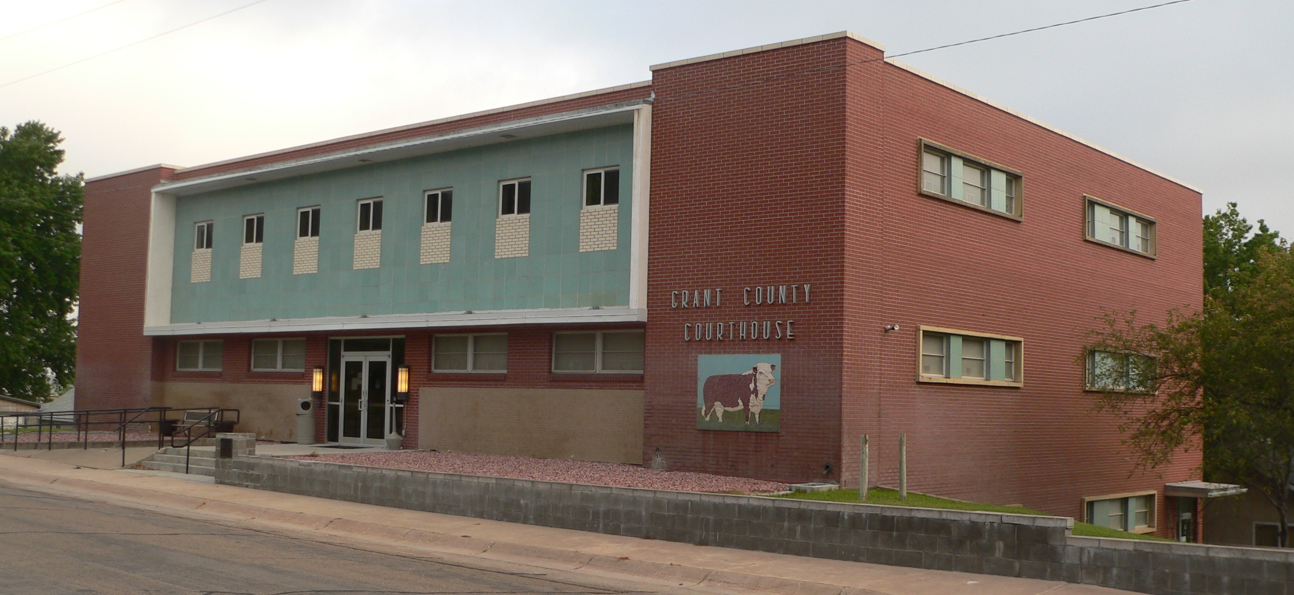 Grant County courthouse in Hyannis, Nebraska; seen from the northeast. The date 1957 appears beside the Hereford depicted on the courthouse's north wall.